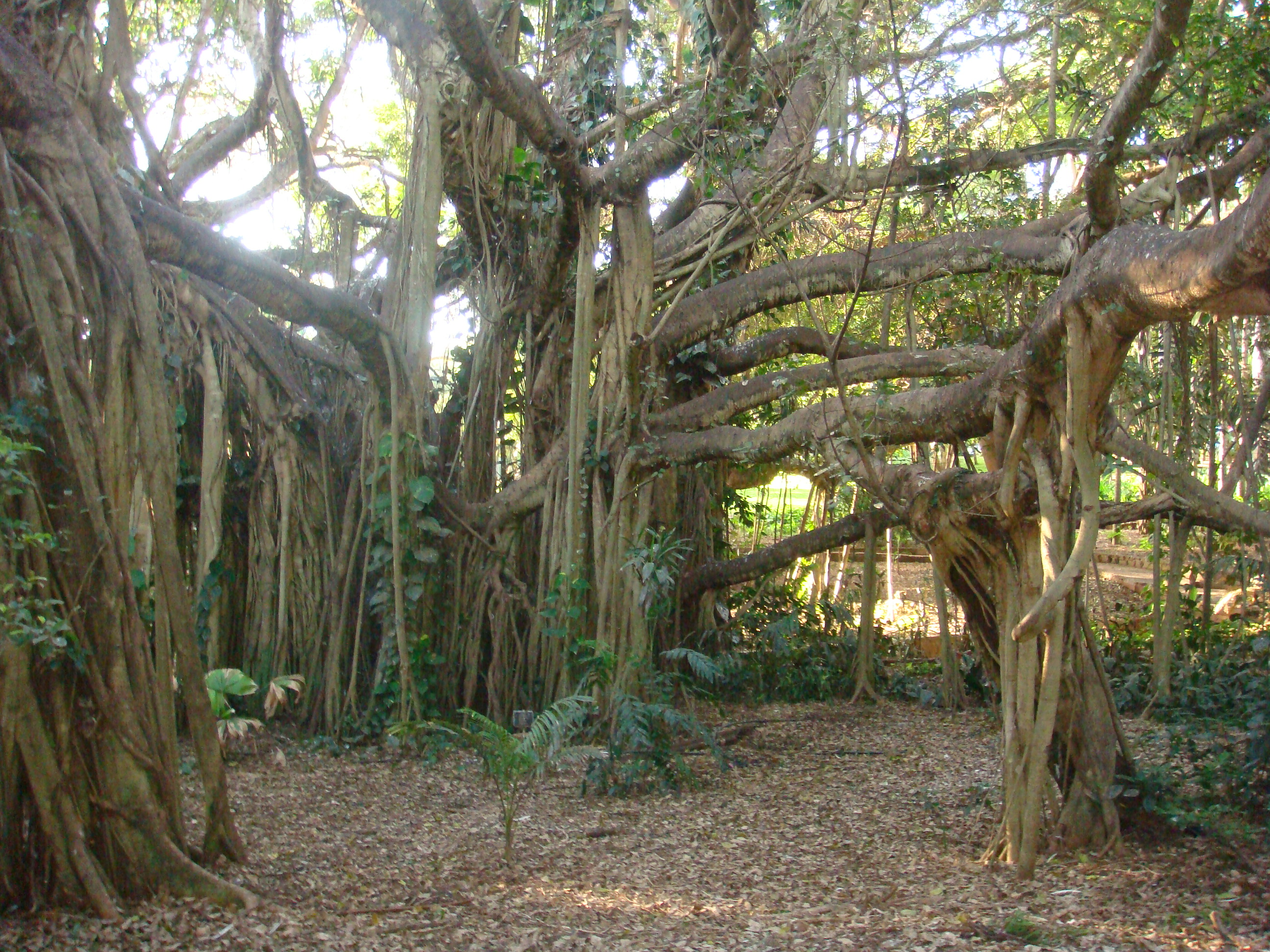 Banyan Fig in the Rockhampton Botanic Gardens, Queensland. Taken by the uploader and relased into the public domain. Location and time information in EXIF header.